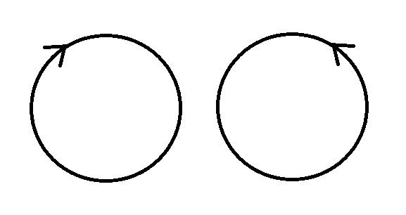 2 orientations on a circle